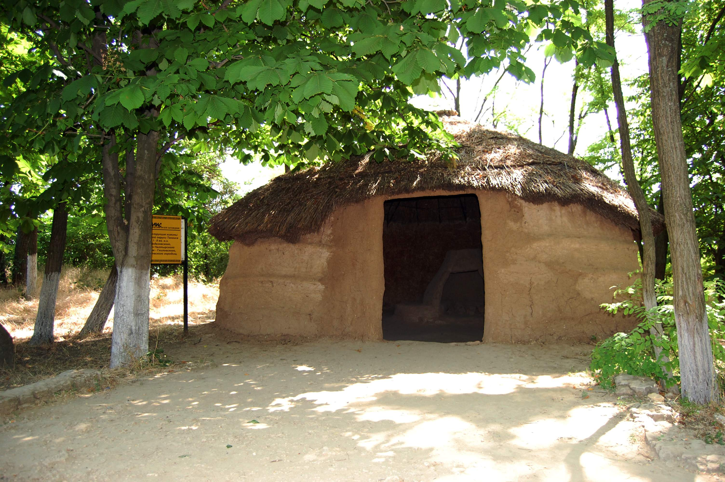 The archeological reservation "Tanais". The reconstruction of a house in the countryside from the environs of Tanais. 1-2nd century CE